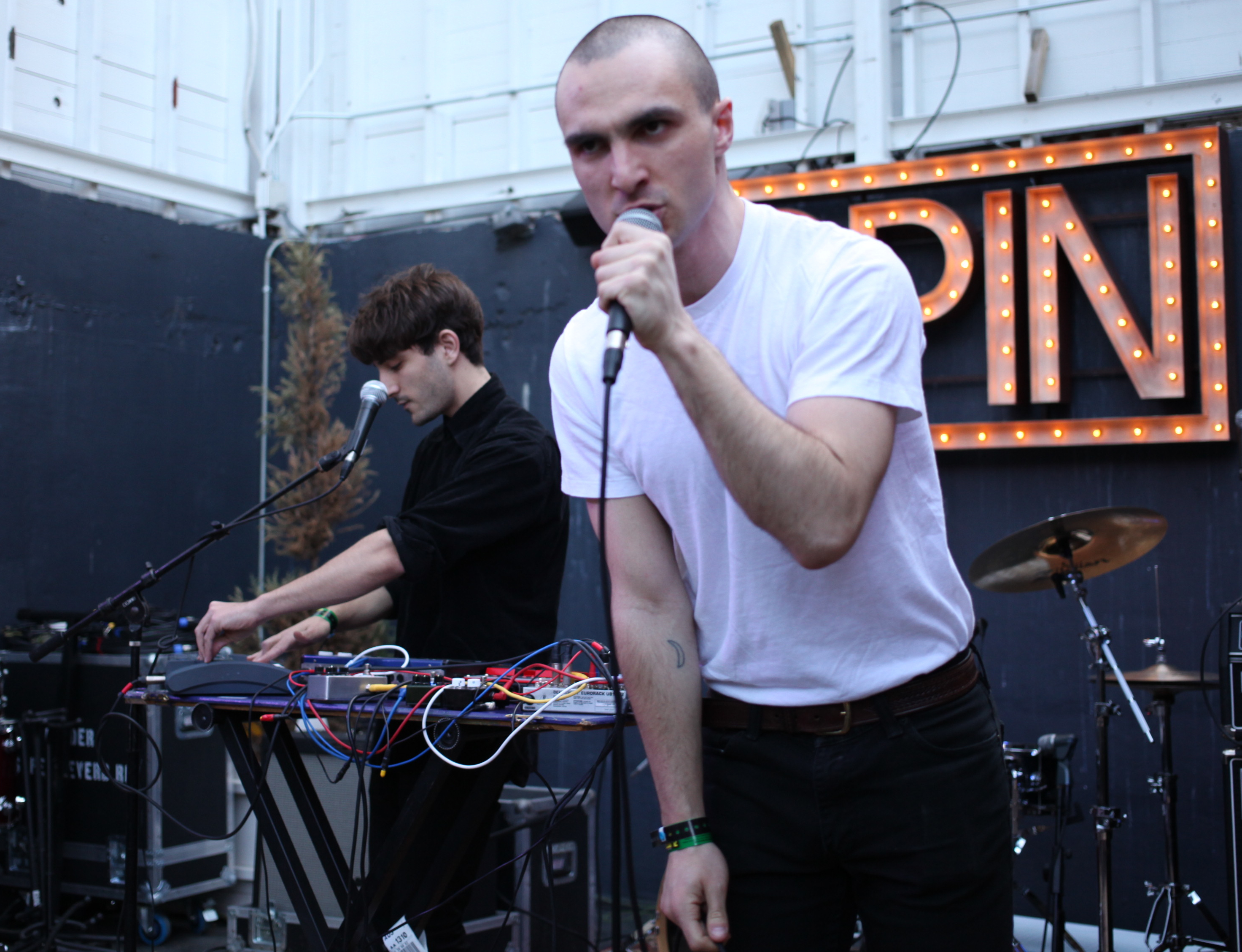 Majical Cloudz, SPIN house, SXSW 2013